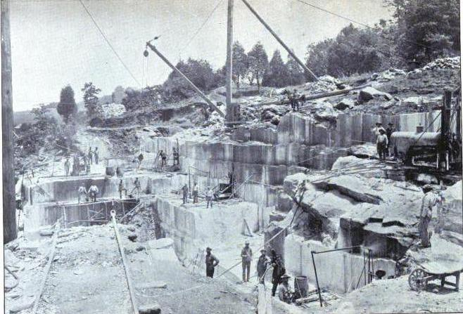 A Tennessee marble quarry near Knoxville, Tennessee, USA, photographed circa 1911.